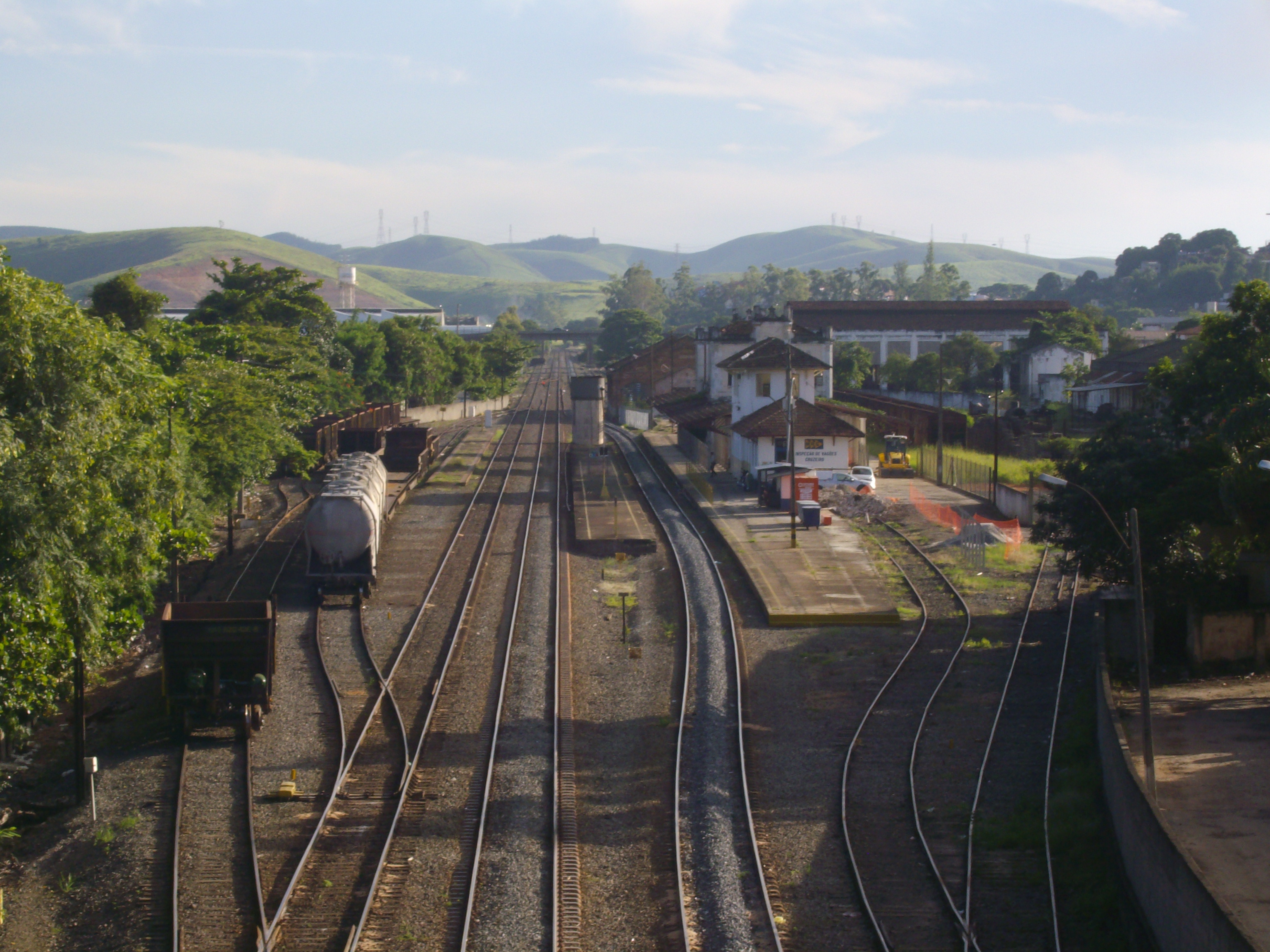 Railroad in Cruzeiro city, São Paulo State, Brazil.